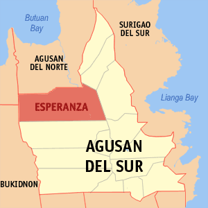 Map of the Agusan del Sur showing the location of Esperanza